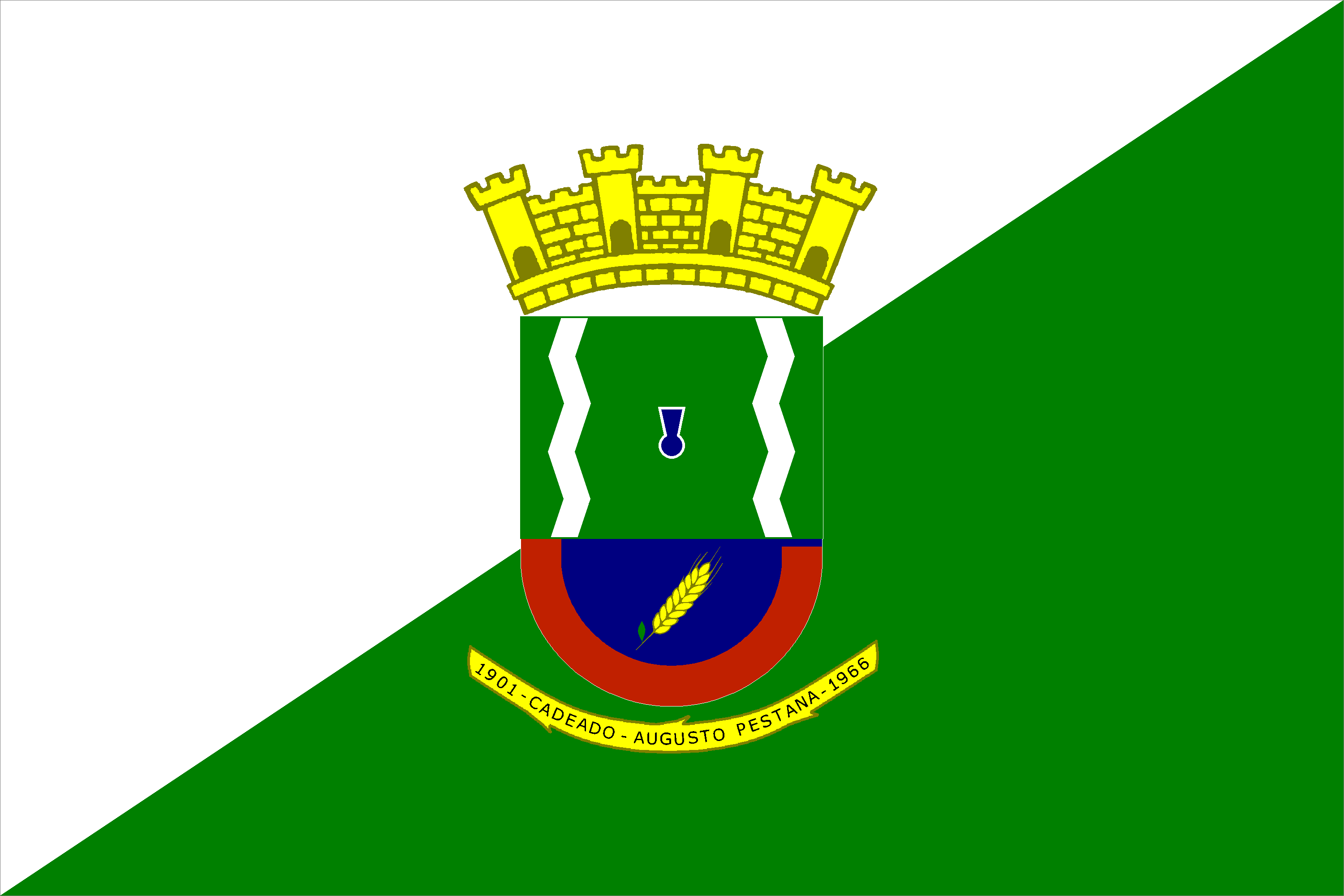 Flag of the City of Augusto Pestana, Rio Grande do Sul, Brazil